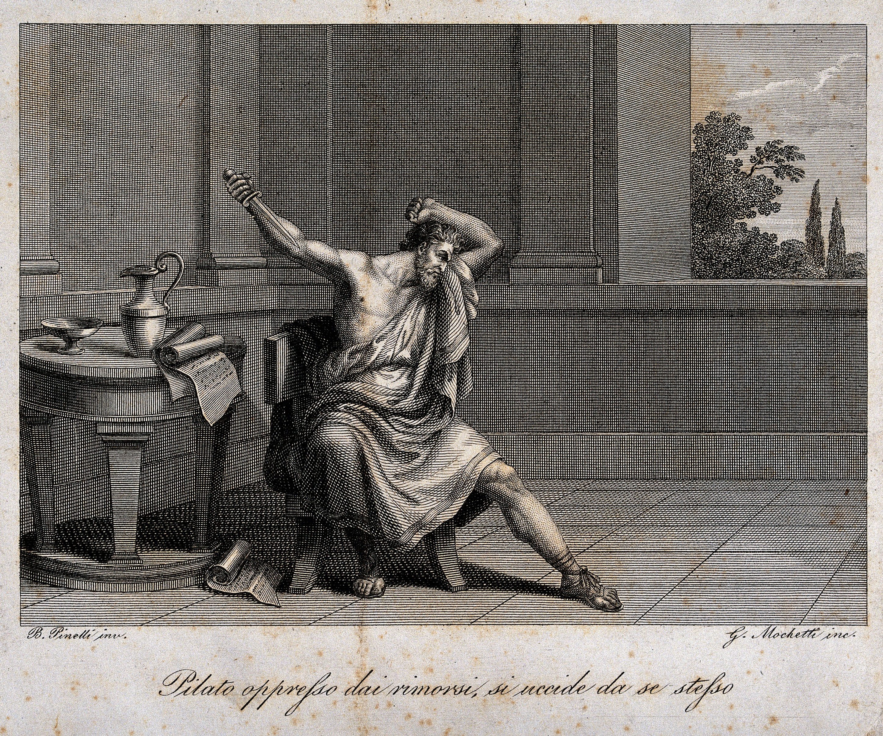 A remorseful Pilate prepares to kill himself. Engraving by G. Mochetti after B. Pinelli. Iconographic Collections Keywords: Pontius Pilate; Bartolomeo Pinelli; G. Mochetti